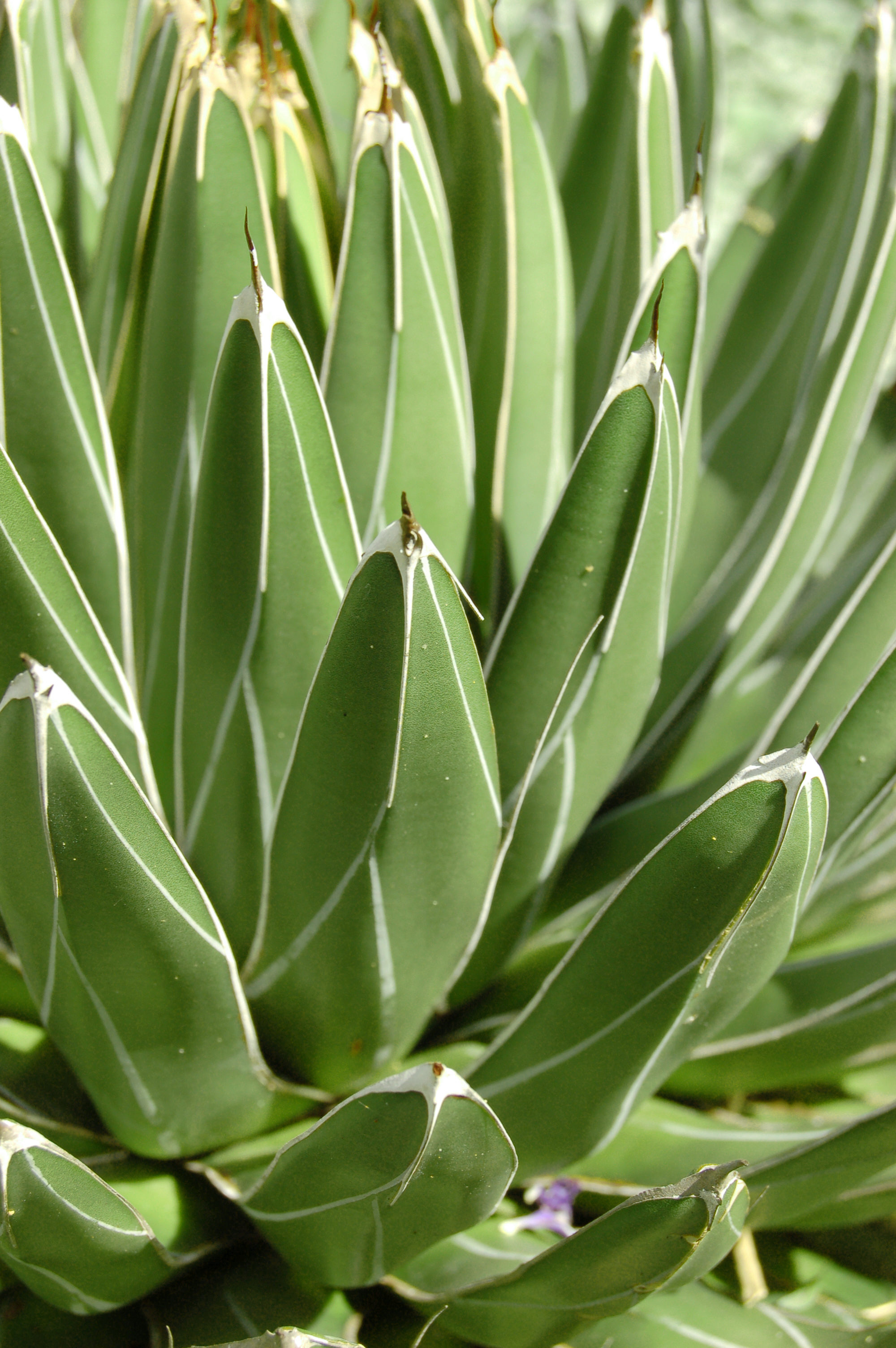 A picture of the Agave victoriae-reginae en plant. Photo taken at the Chanticleer Garden where it was identified.